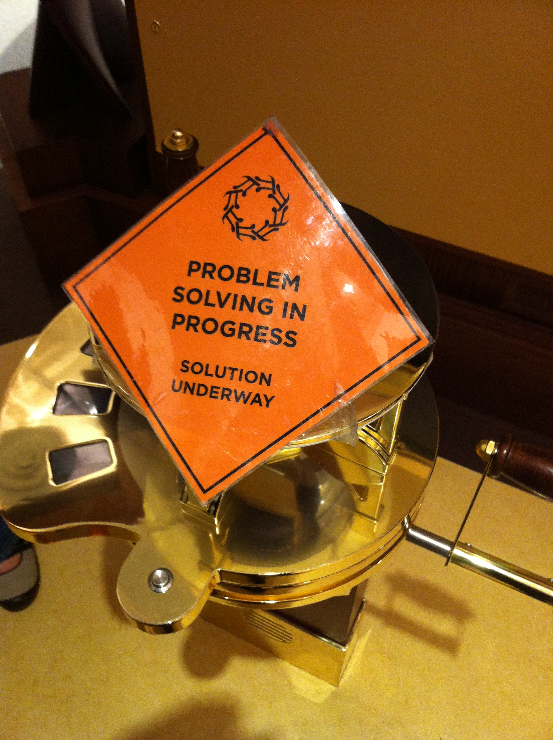 problem solving in program: solution underway from museum of mathematics